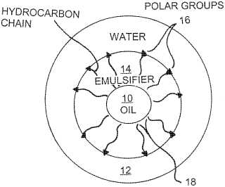 From US patent 6261463: "BRIEF DESCRIPTION OF THE DRAWING [0020] The only FIGURE in the drawing is a schematic illustration of an oil droplet being emulsified according to the present invention."